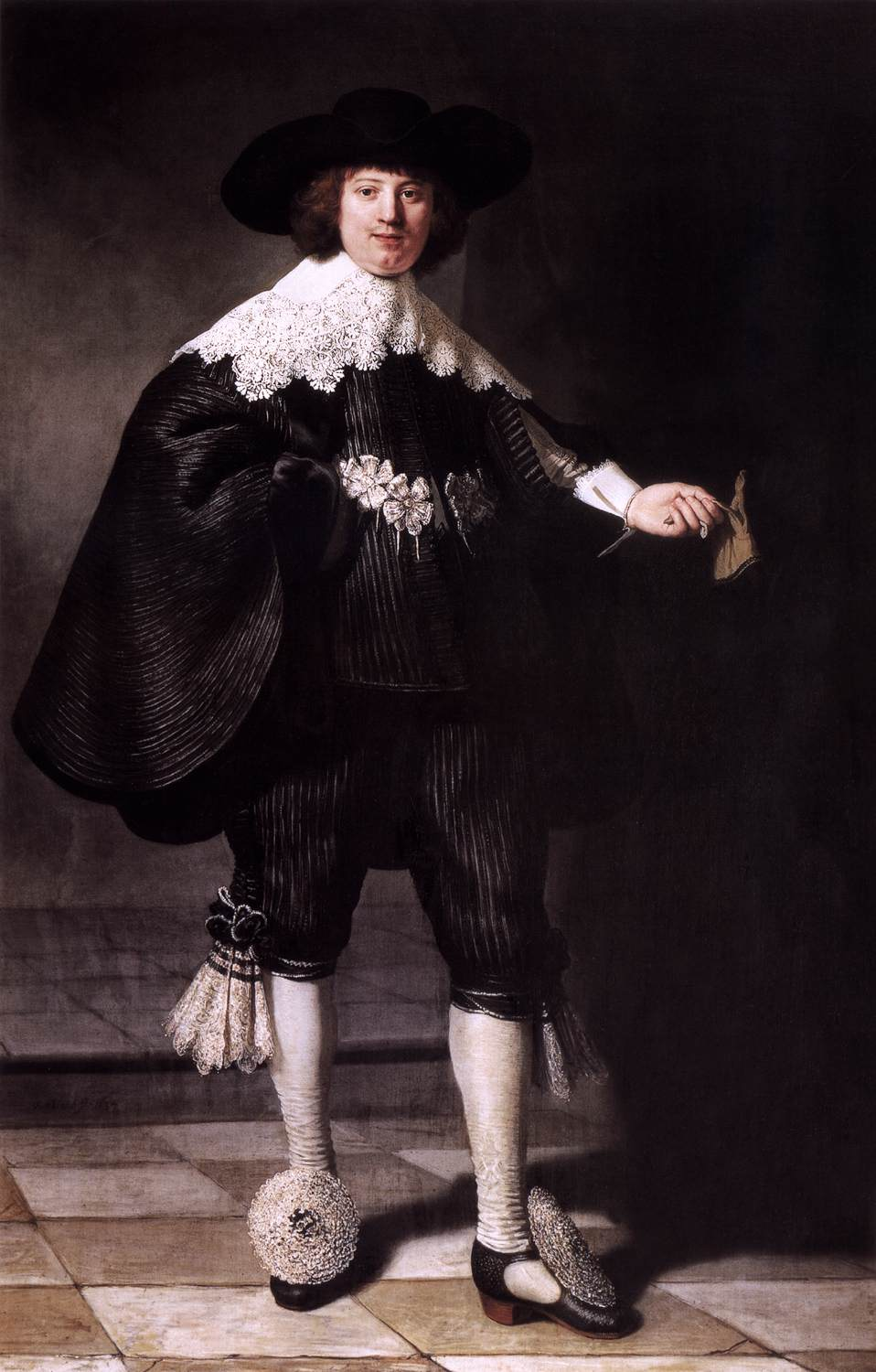 Portrait of Marten Soolmans